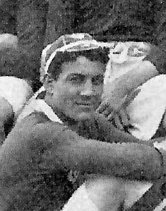 Ernest Fahmy, Scottish obstetrician and gynaecologist, playing for the Scotland international rugby team against France in 1920.